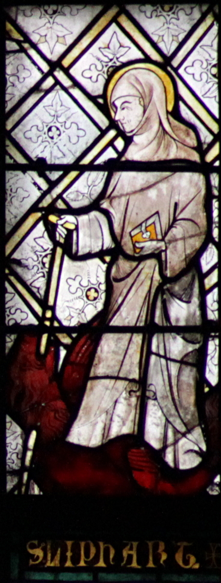 Stained window in Chartres cathedral - fragment. Thierry's inscription